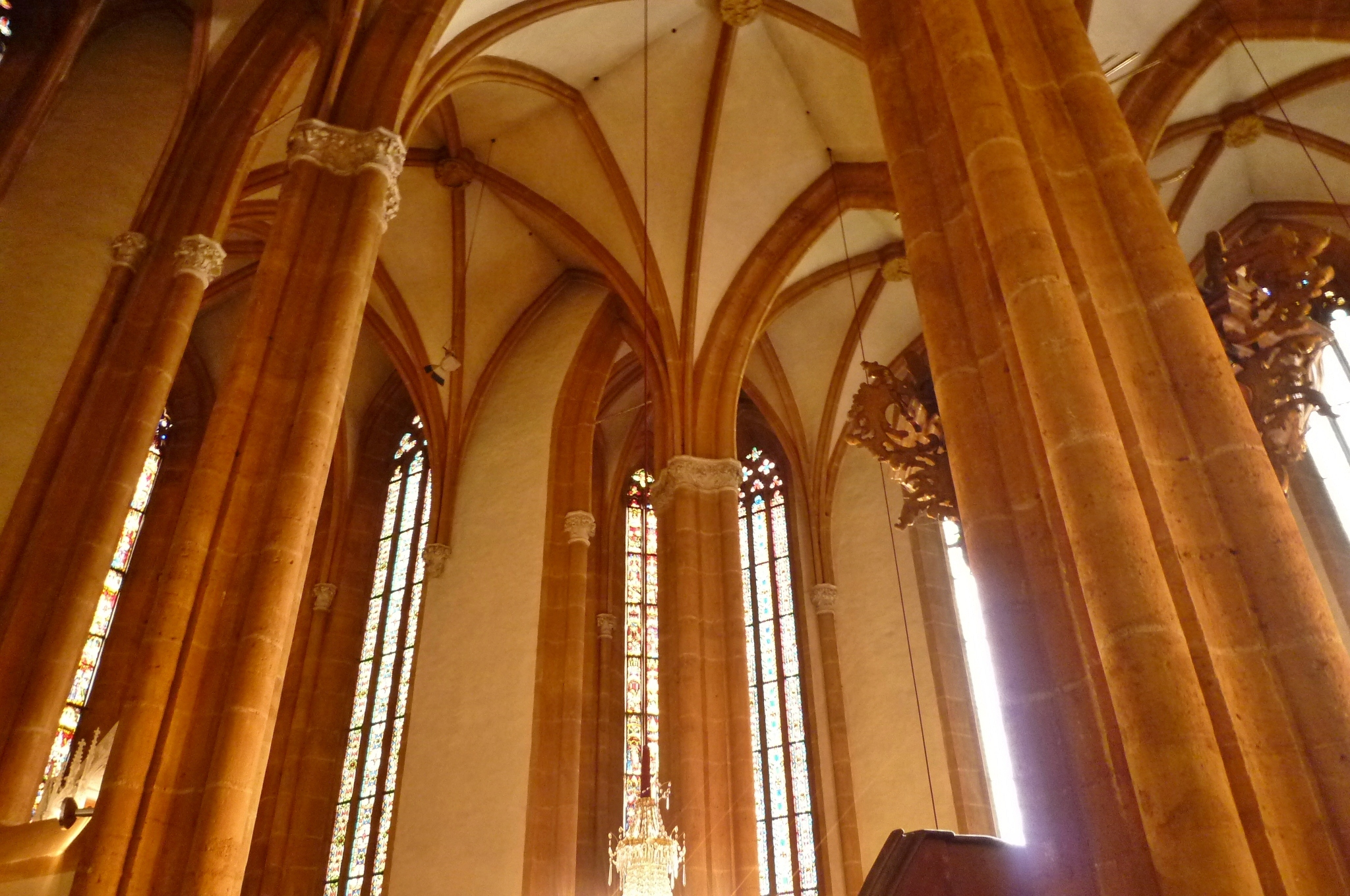 Wallfahrtskirche hl. Maria Straßengel und Kirchhof mit Befestigungsanlage